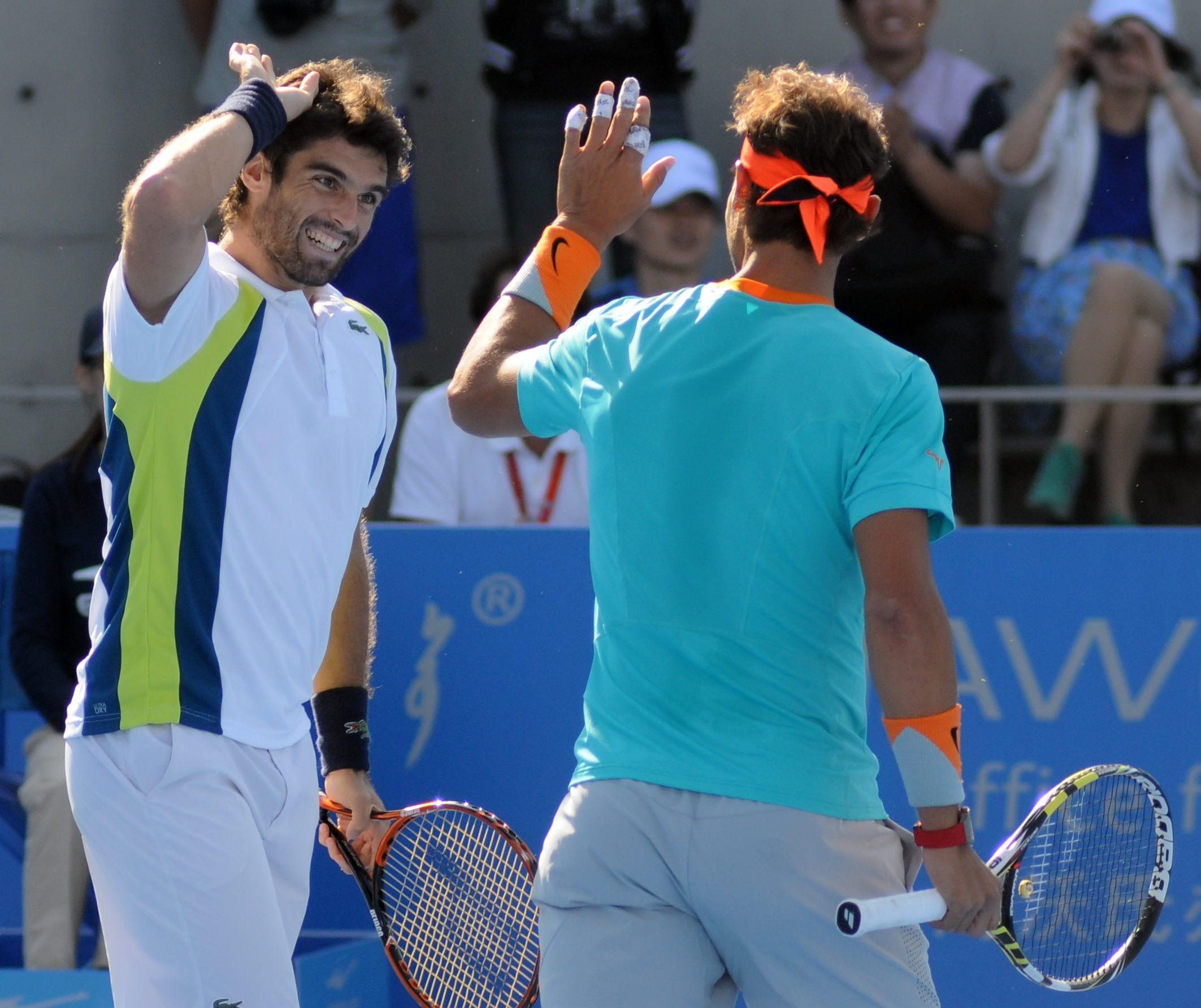 Pablo Andújar and Rafael Nadal at the 2014 China Open